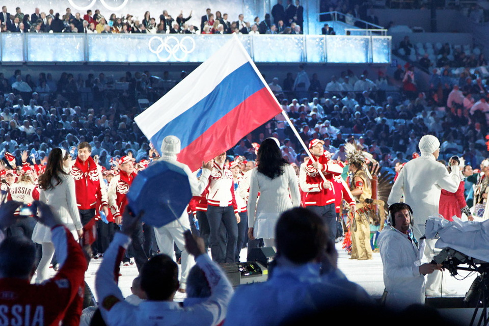 Ice hockey player Aleksey Morozov leads Russia in the Parade of Nations.